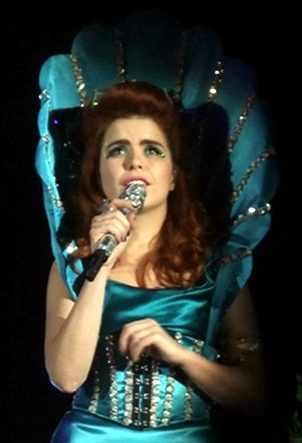 hammersmith apollo 8th nov 2010